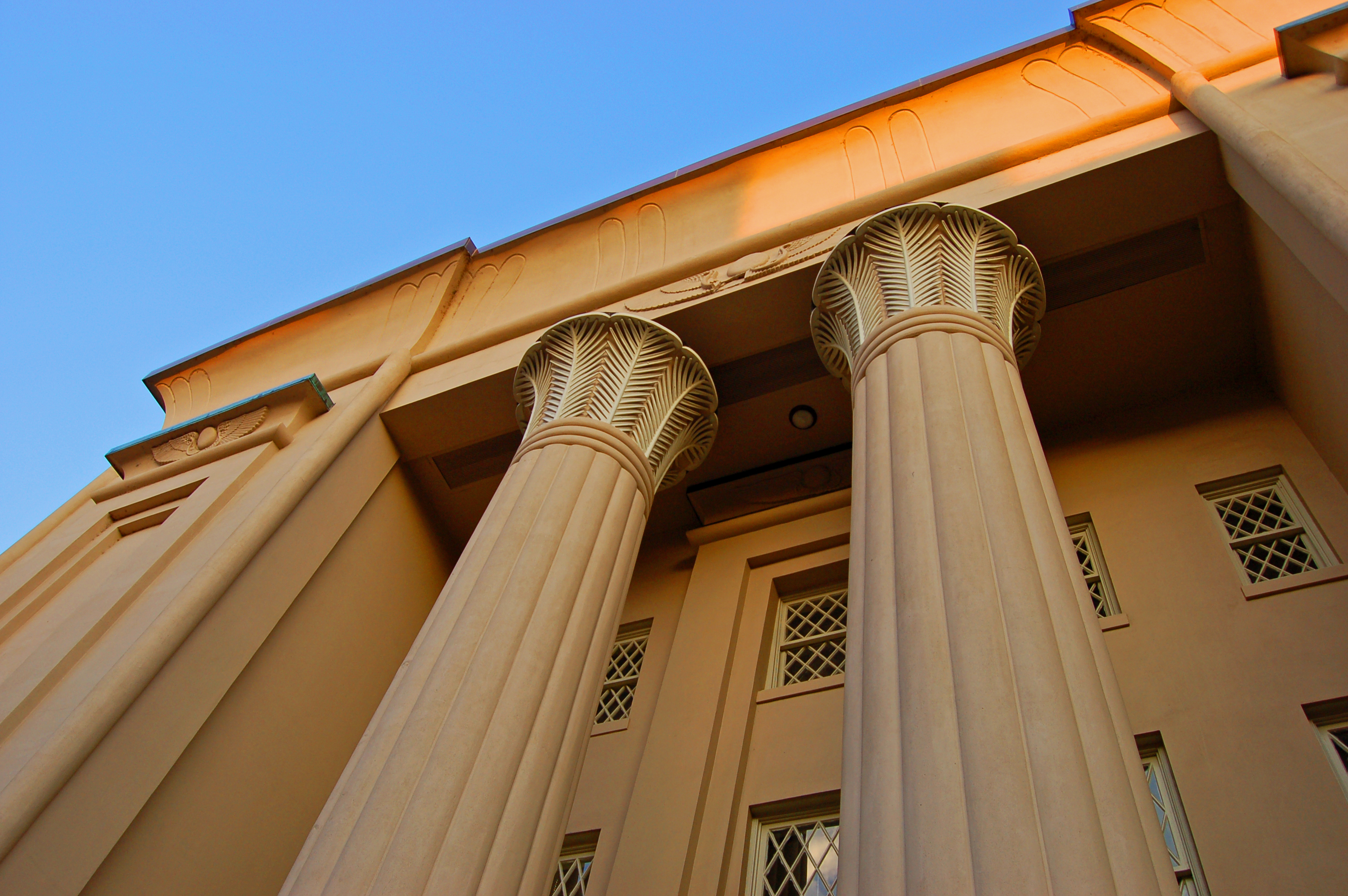 VCU MCV Campus, Court End; Richmond VA